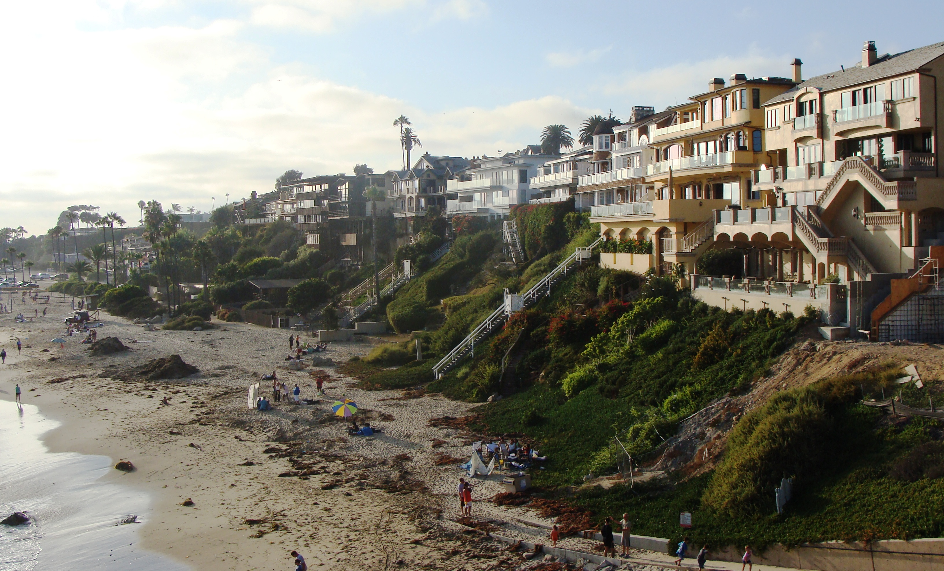 Corona del Mar State Beach, California.